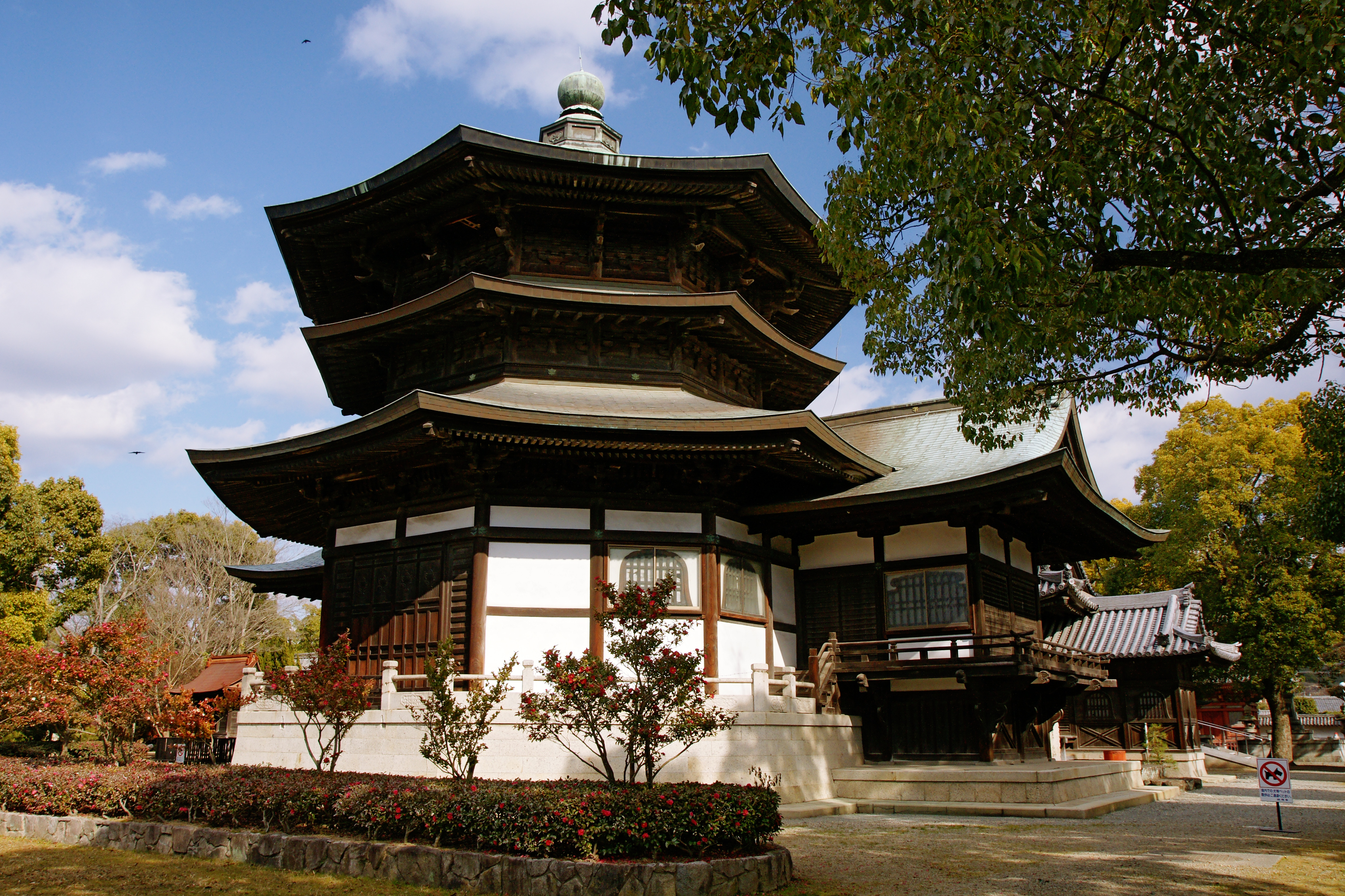 Ikaruga-dera (Hankyu-ji) in Taishi, Hyogo prefecture, Japan.